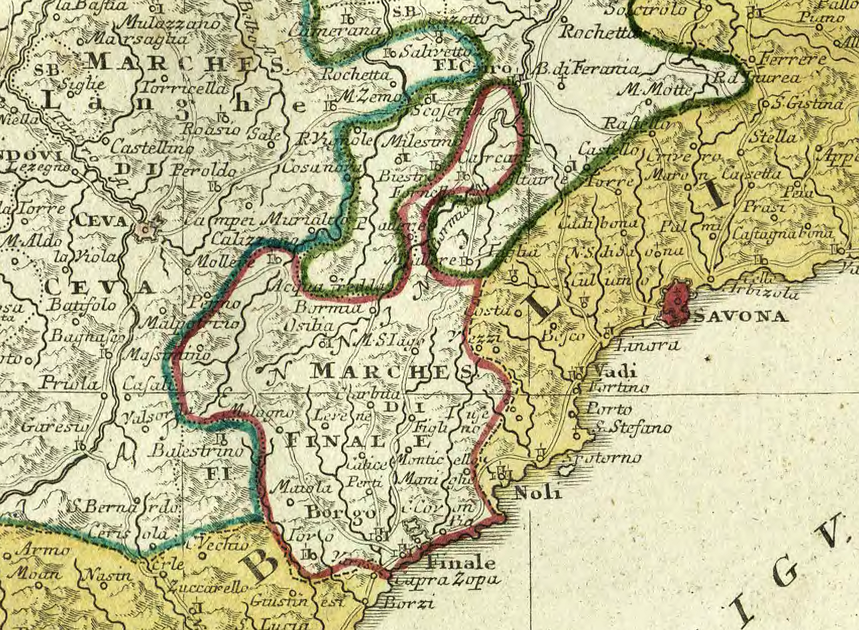 Marchesato di Finale in 1749, from a Tobias Mayer map